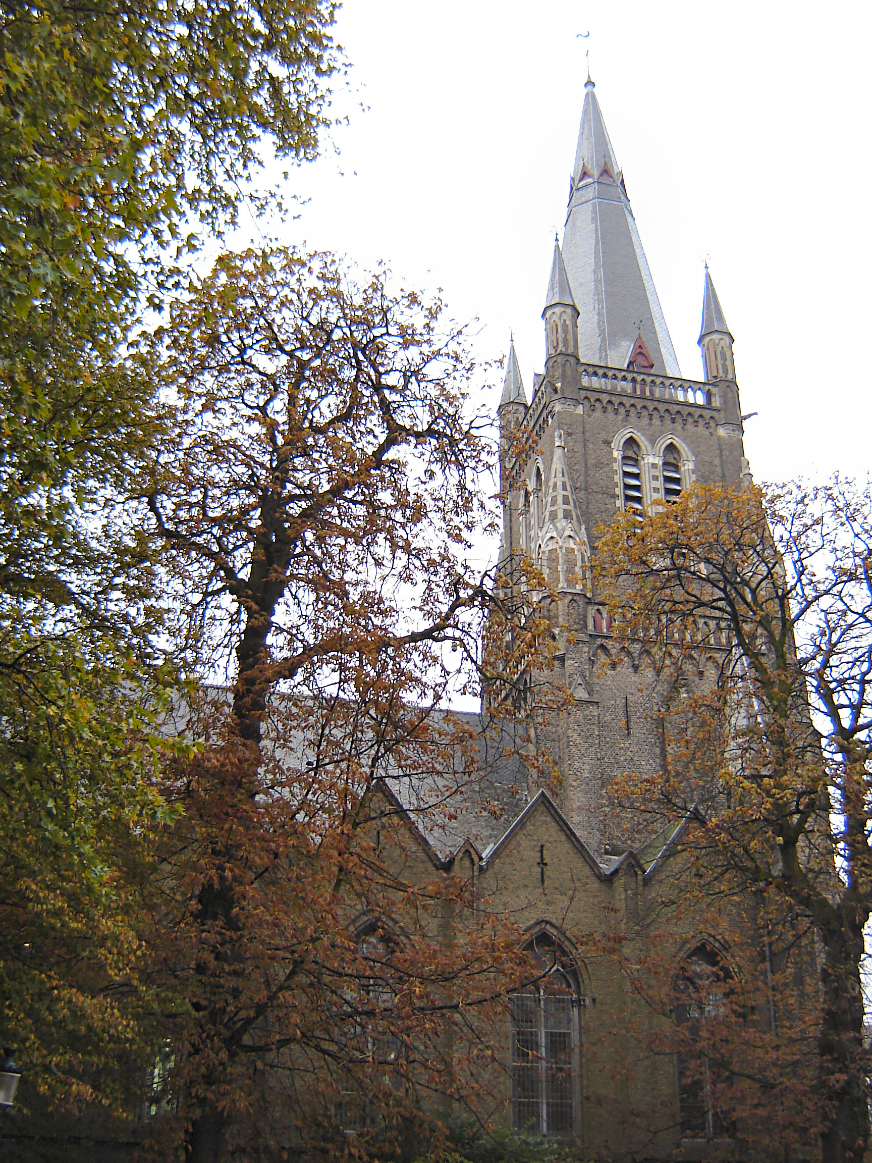 Church of Saint Magdalene and Catherine in Brugge. Brugge, West Flanders, Belgium